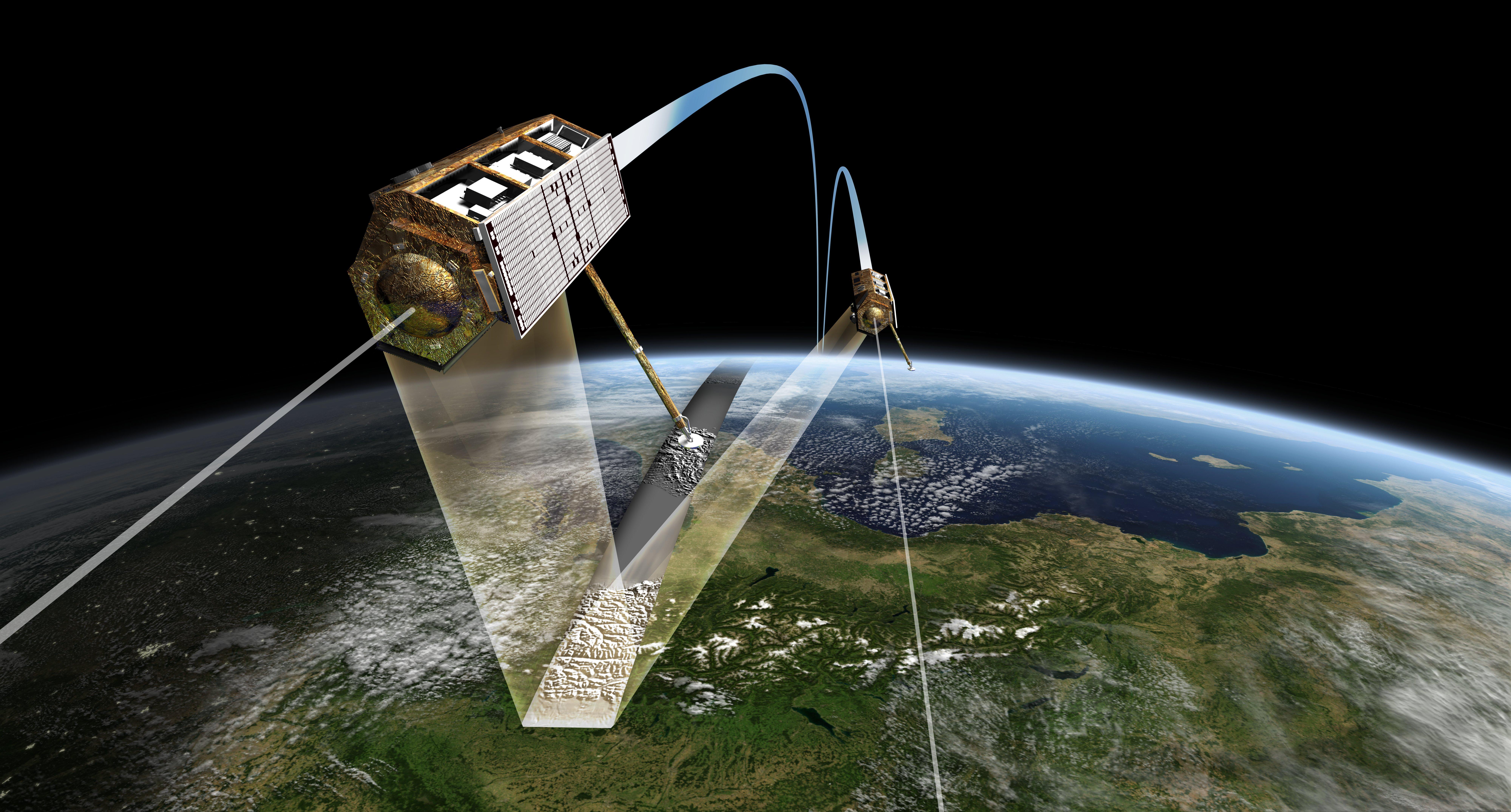 On 14 October 2010, the radar satellite TanDEM-X transitioned to close formation flight with its ‘twin’ TerraSAR-X. This image shows the two satellites flying together – ‘side-by-side’ – 350 metres apart. The two satellites operate in synchronisation and are able to perform simultaneous data acquisitions of the same area.